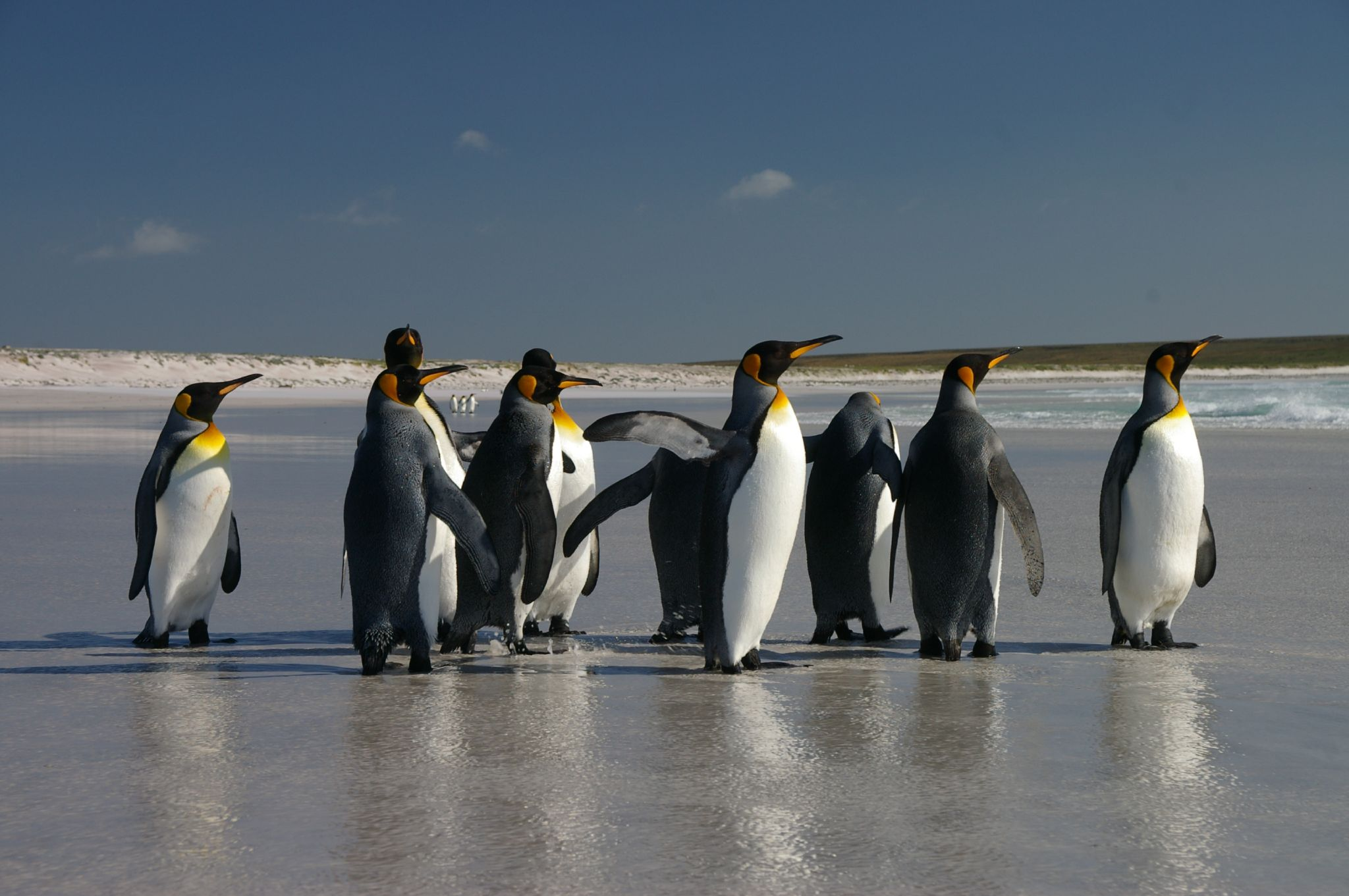 King Penguins (Aptenodytes patagonicus patagonicus), West Falkland